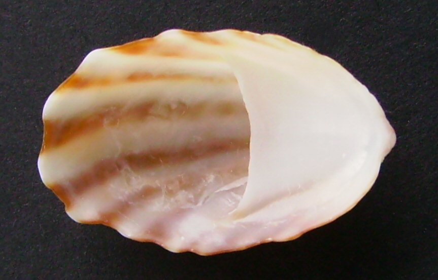 Maoricrypta costata (underside) from Pakiri Beach, New Zealand. This work has been released into the public domain by its author, Graham Bould. This applies worldwide. In some countries this may not be legally possible; if so: Graham Bould grants anyone the right to use this work for any purpose, without any conditions, unless such conditions are required by law.